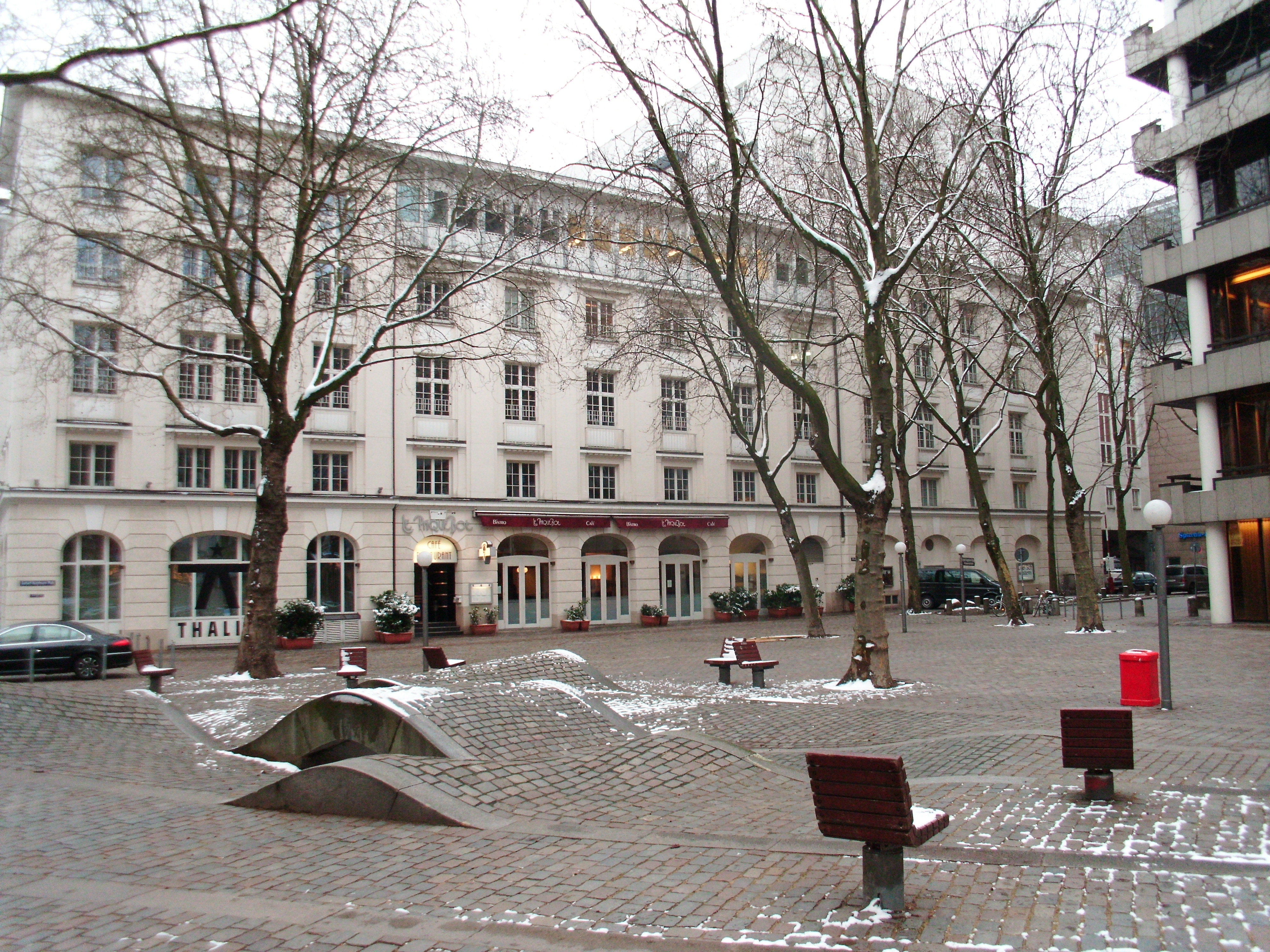 Thalia Theater (mit dem Theaterrestaurant Le Paquet Bot) & Gerhard-Hauptmann-Platz, Hamburg, Germany